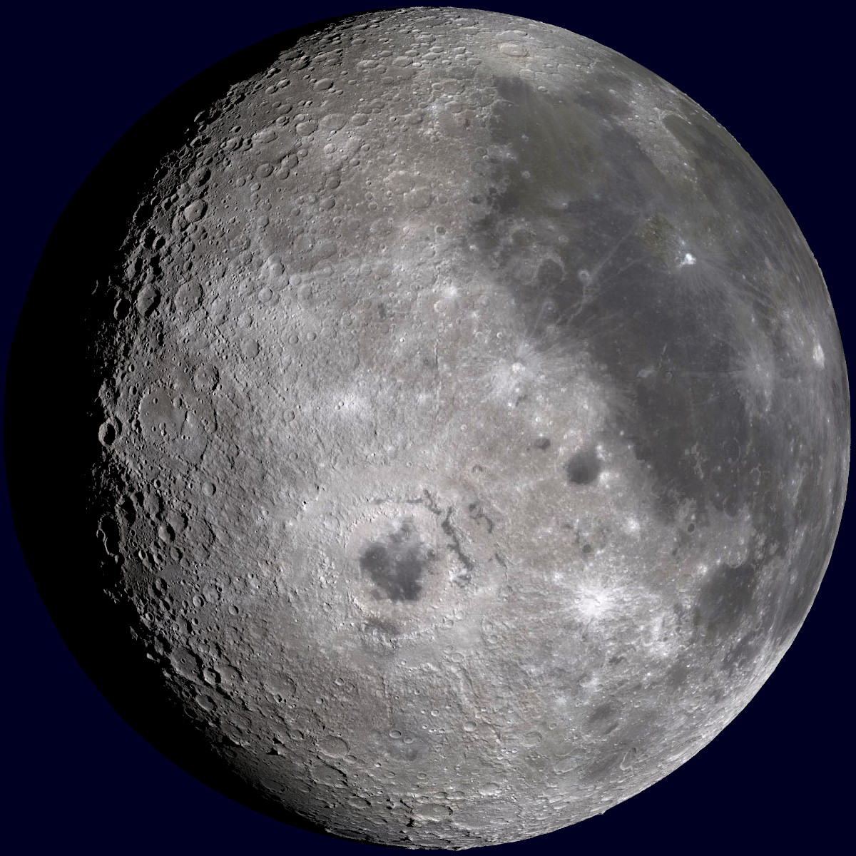 Near side lunar phase image set rendered by Jay Tanner - 2014. Size : 1200x1200 pixels Format : JPEG Author : Jay Tanner - 2014 License : These images are released under the provisions of the Creative Commons Attribution-ShareAlike 3.0 license. The image set consists of 361 images of the geocentric moon with 3D relief at 1-degree intervals of phase measured positively counterclockwise around the sky, eastward, from 0 to 360 degrees. Phase Orientation Legend: New = 0 degrees First Quarter = 90 Full = 180 Last Quarter = 270 New = 360